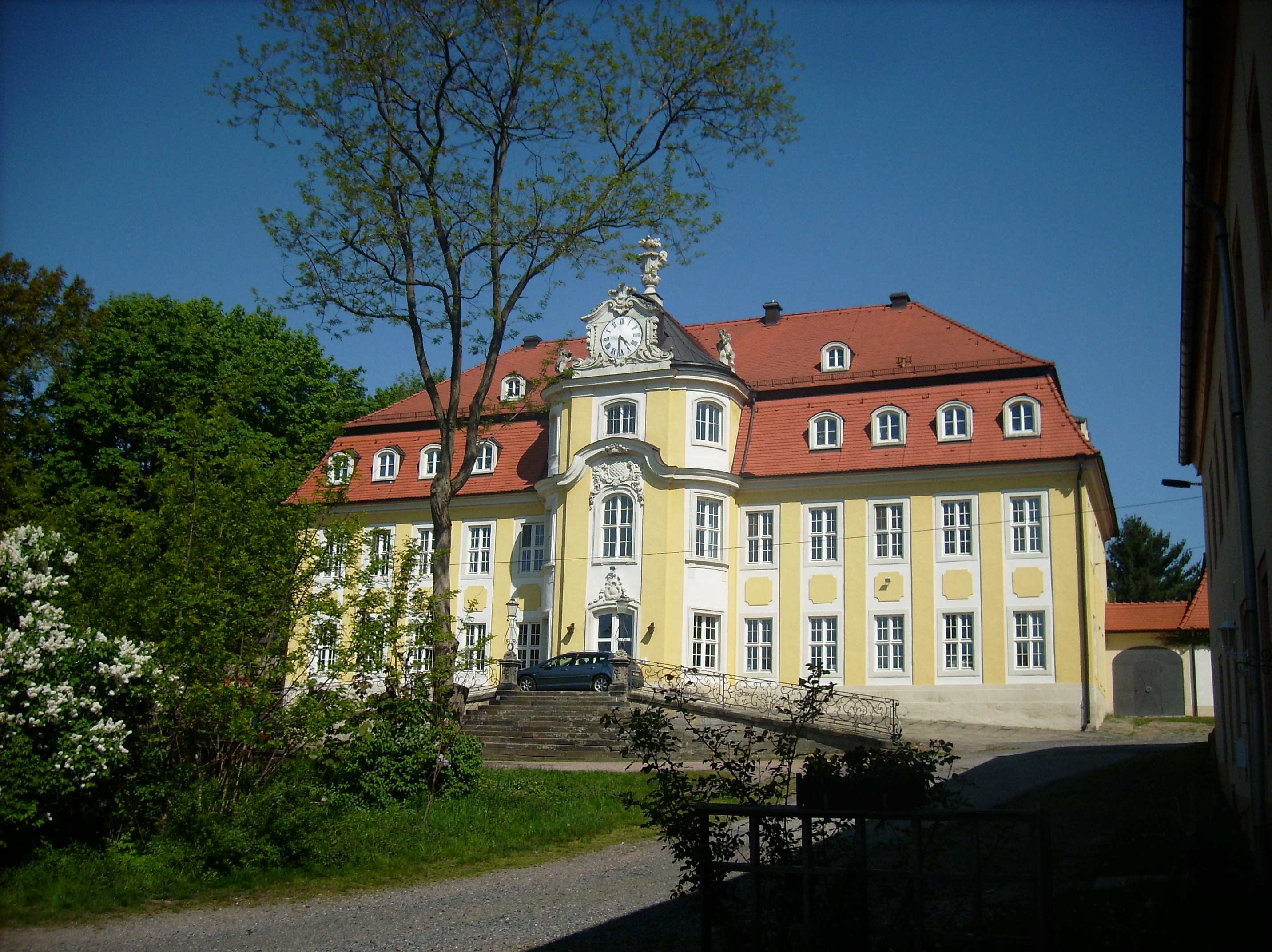 Late baroque castle of Choren (Mochau, Mittelsachsen district, Saxony)